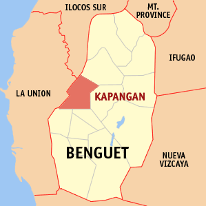 Map of Benguet showing the location of Kapangan